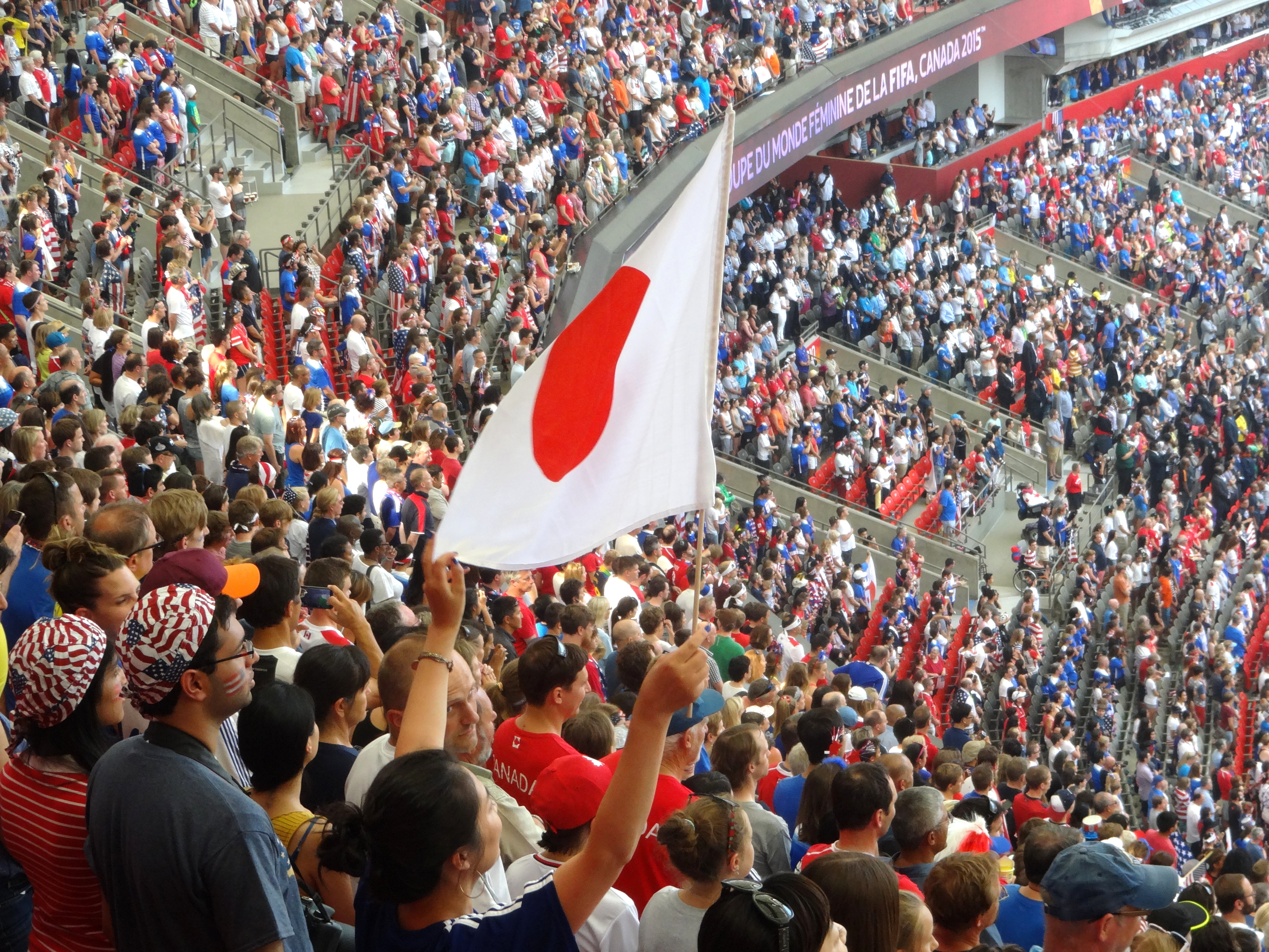 FIFA Women's World Cup Final